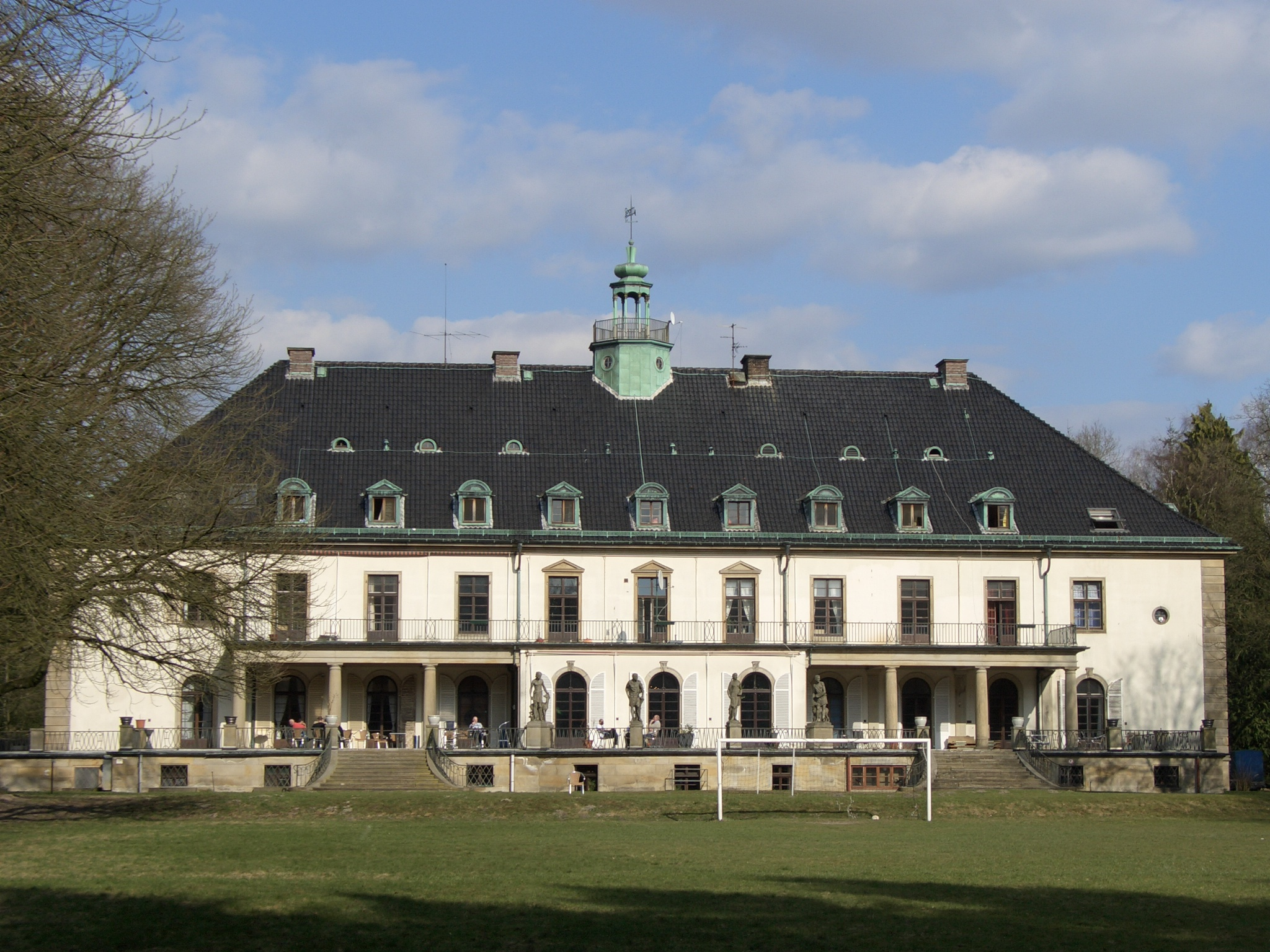 Back view of Herrenhaus Hohehorst